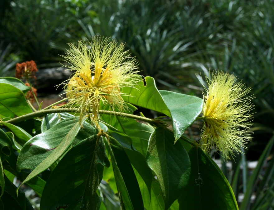 Flowering Inga pilosula near Cacuri, Rio Ventuari, Venezuela